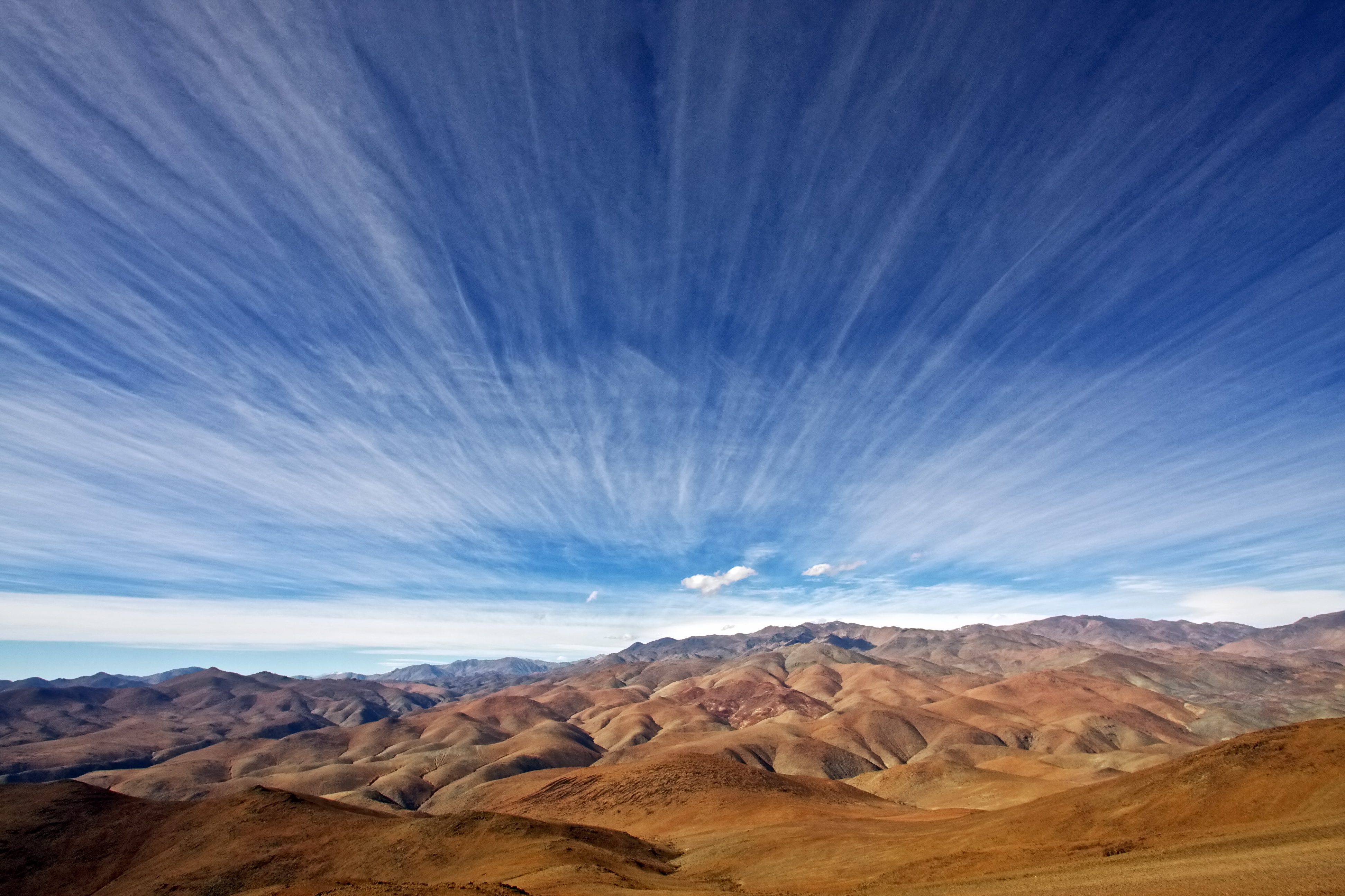 A rare patch of wispy white clouds streak across the sky over ESO’s La Silla Observatory in this photograph, taken on 11 June 2012 by astronomer Alan Fitzsimmons. This dry, desolate environment with occasional strong gusts of wind may not be the best place for people to set up home, but it is the ideal location for telescopes. Dry, arid conditions help astronomers to avoid common observing problems like atmospheric disturbance, light pollution, humidity, and (most of the time!) clouds, allowing them to gain a clearer view of the cosmos above. Even on this rare day of cloud the sky had cleared by nightfall and observations took place as usual. The telescopes that call La Silla home — including two major ESO-operated telescopes: the ESO 3.6-metre telescope and the New Technology Telescope (NTT) — are equipped with state of the art instruments, enabling them to fully exploit the unique viewing conditions in northern Chile. The ESO 3.6-metre telescope currently operates with the High Accuracy Radial velocity Planet Searcher (HARPS), an instrument that is dedicated to the discovery of extrasolar worlds. The NTT was a pioneer in active optics, and was the first telescope in the world to have a computer-controlled main mirror. La Silla was the first ESO site to be based in Chile back in the 1960s, and has been invaluable ever since.